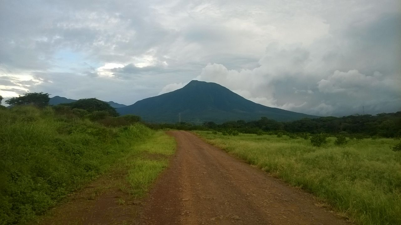 Orosí Volcano seen from Santa Cecilia